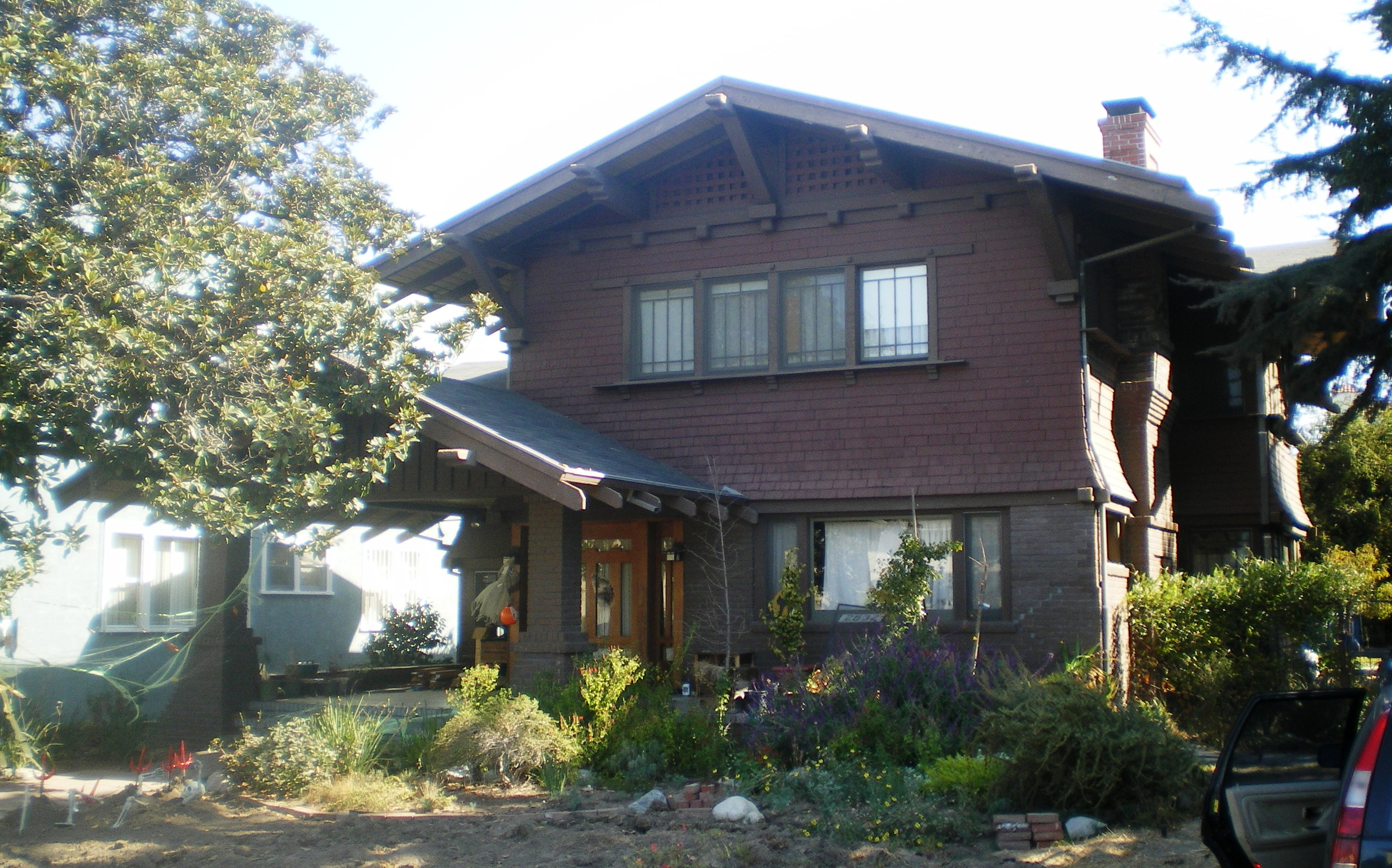 Gordon L. McDonough House — 2532 5th Ave., West Adams district, Los Angeles, California. The 1908 American Craftsman style residence is a Category:Los Angeles Historic-Cultural Monument (HCM #417).